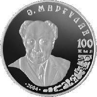 Coin of Kazakhstan : Margulan